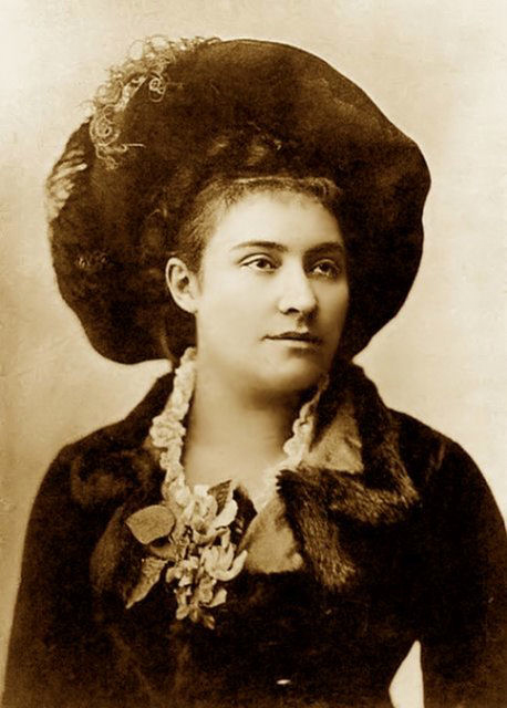 Photographic portrait of Austrian soprano Amalie Materna.